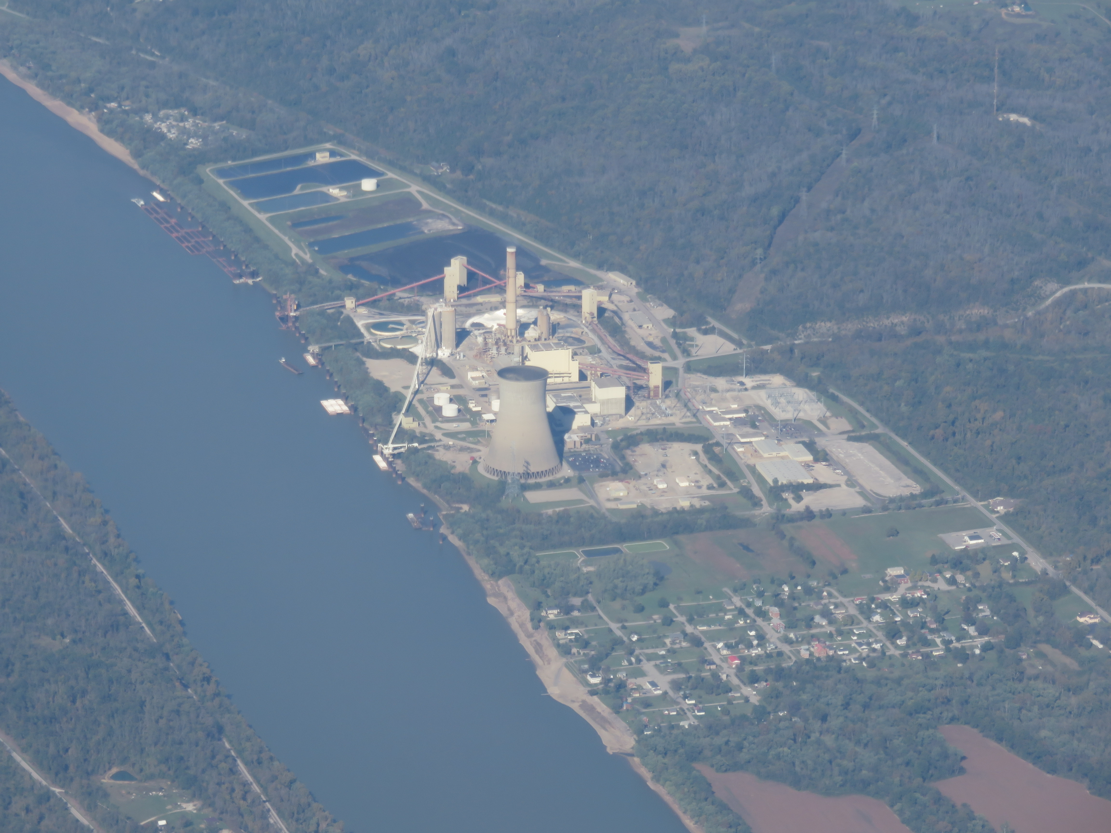 Aerial view of the William H. Zimmer Power Station on the Ohio River in 2017